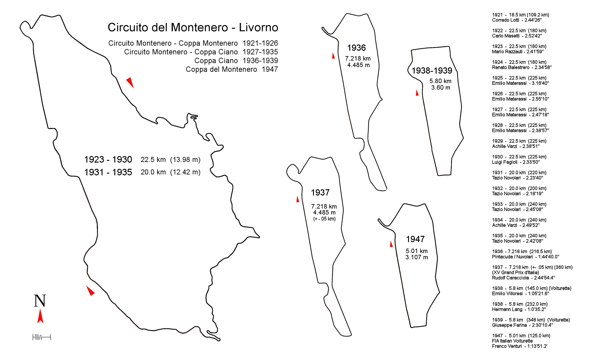 Circuito Montenero 1923-1947